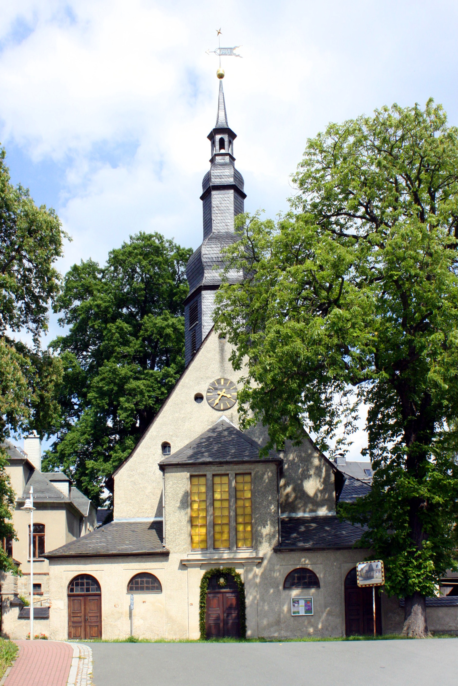 Church in Ebersdorf (City of Saalburg-Ebersdorf) near Schleiz/Thuringia